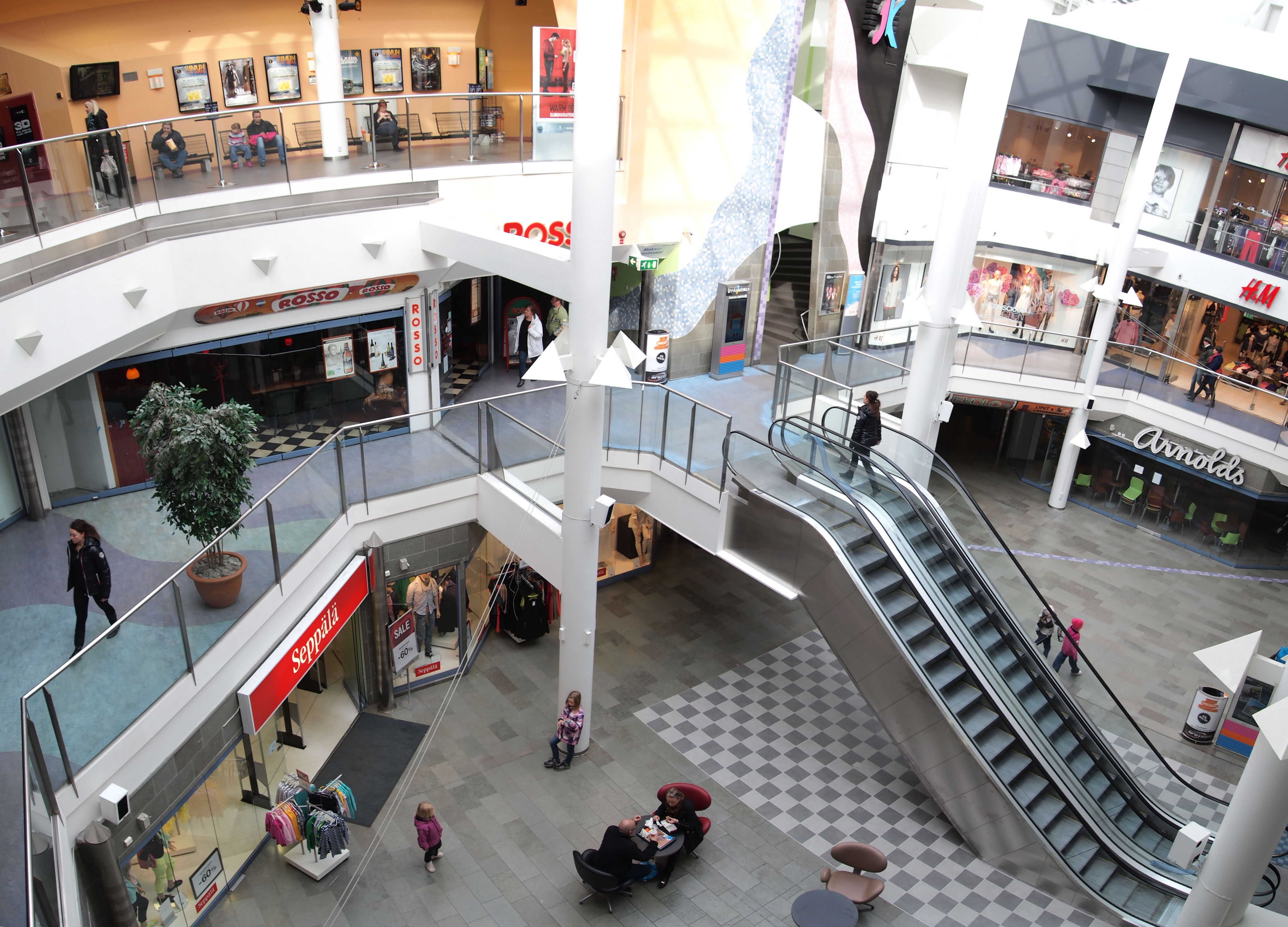 Interior of shopping mall Jyväskeskus in Jyväskylä.